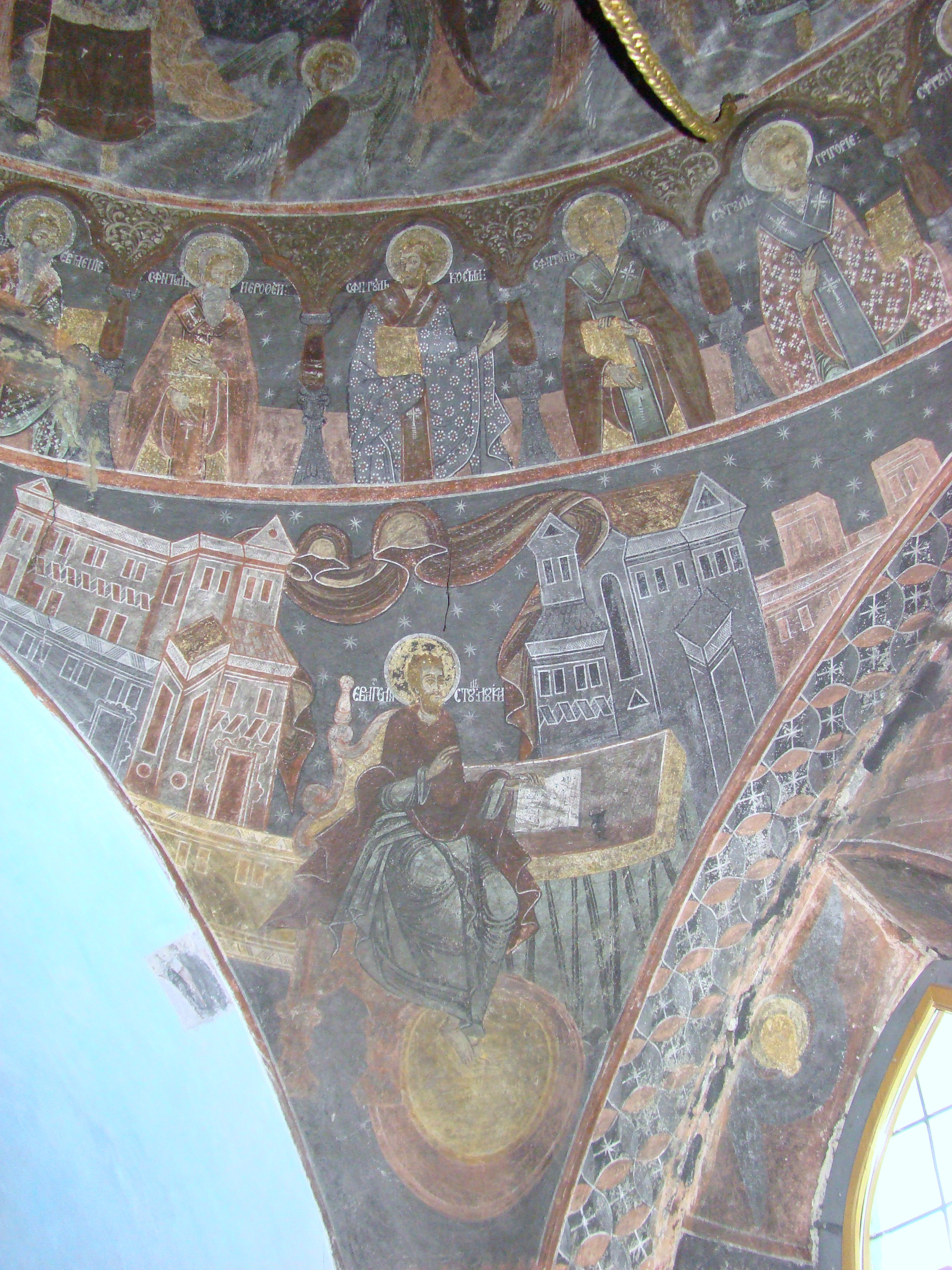 The old orthodox church „Dormition of the Theotokos” in Săsăuș, Sibiu county, Romania